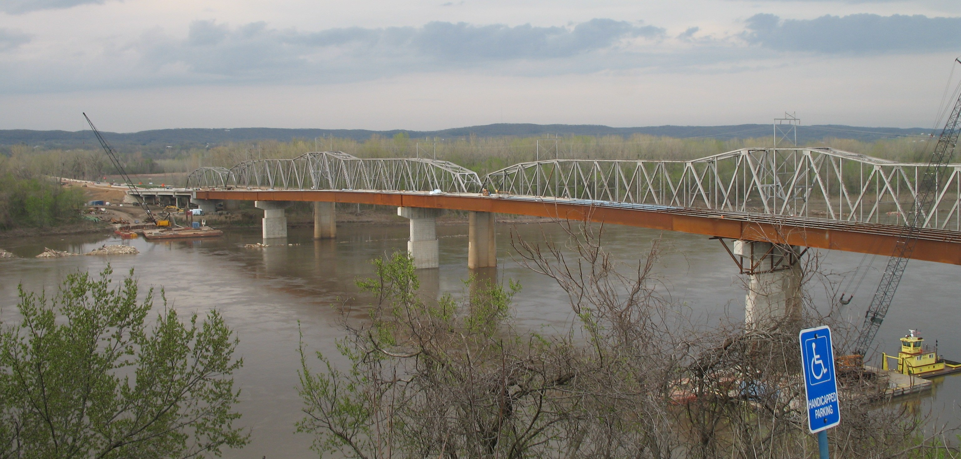 Hermann Bridge (truss bridge behind) with Christopher Bond Bridge (girder bridge in foreground) from southwest bank.